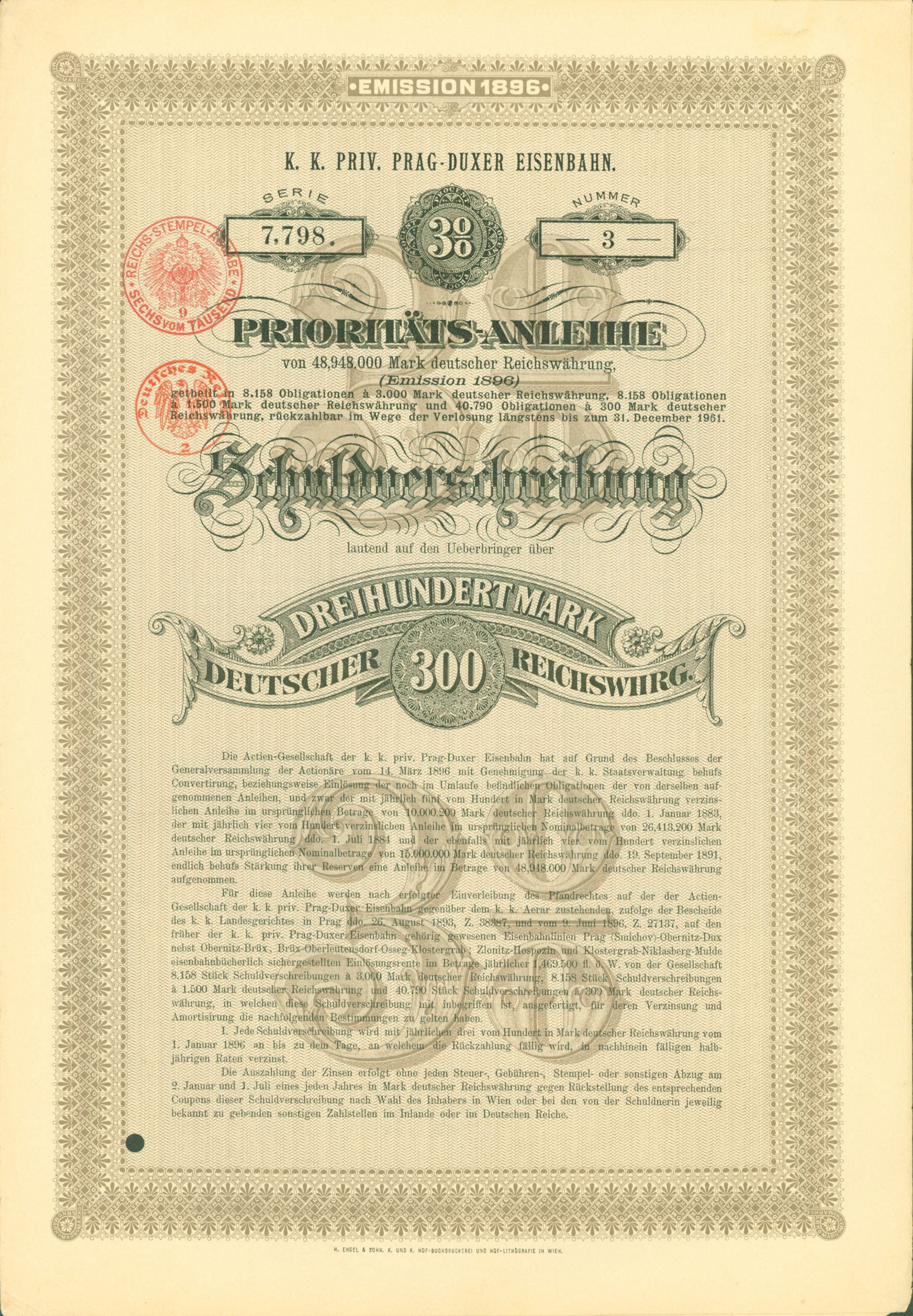 Bond of the k. k. priv. Prag-Duxer Eisenbahn, issued 15. June 1896